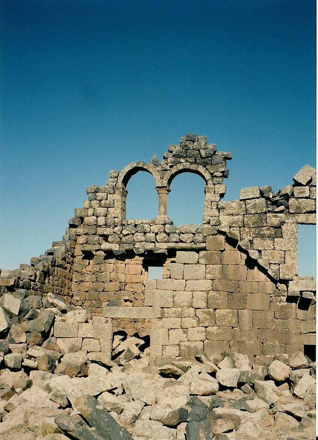 Photograph of House XVIII taken in Umm el-Jimal, Jordan in the summer of 1993.